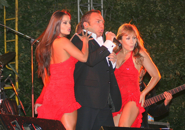 Luis Jara in concert. Talcahuano (Chile).